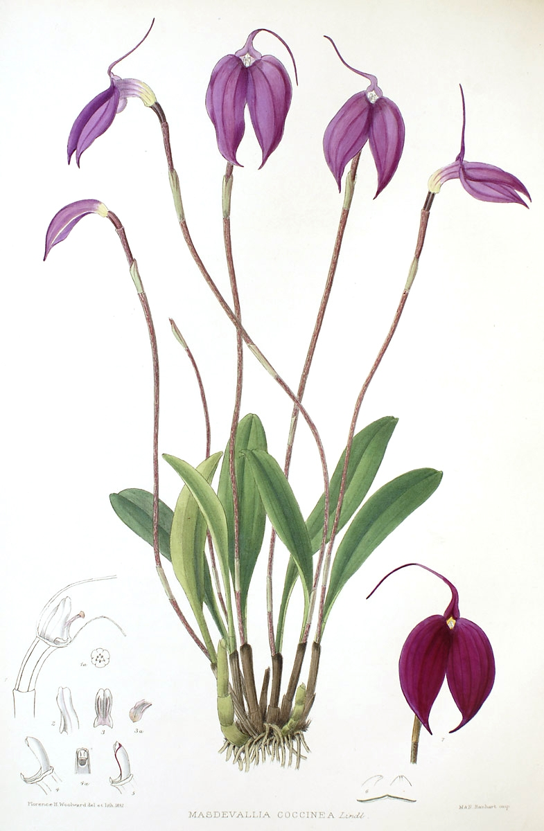 Illustration of Masdevallia coccinea from Florence H. Woolward: The Genus Masdevallia